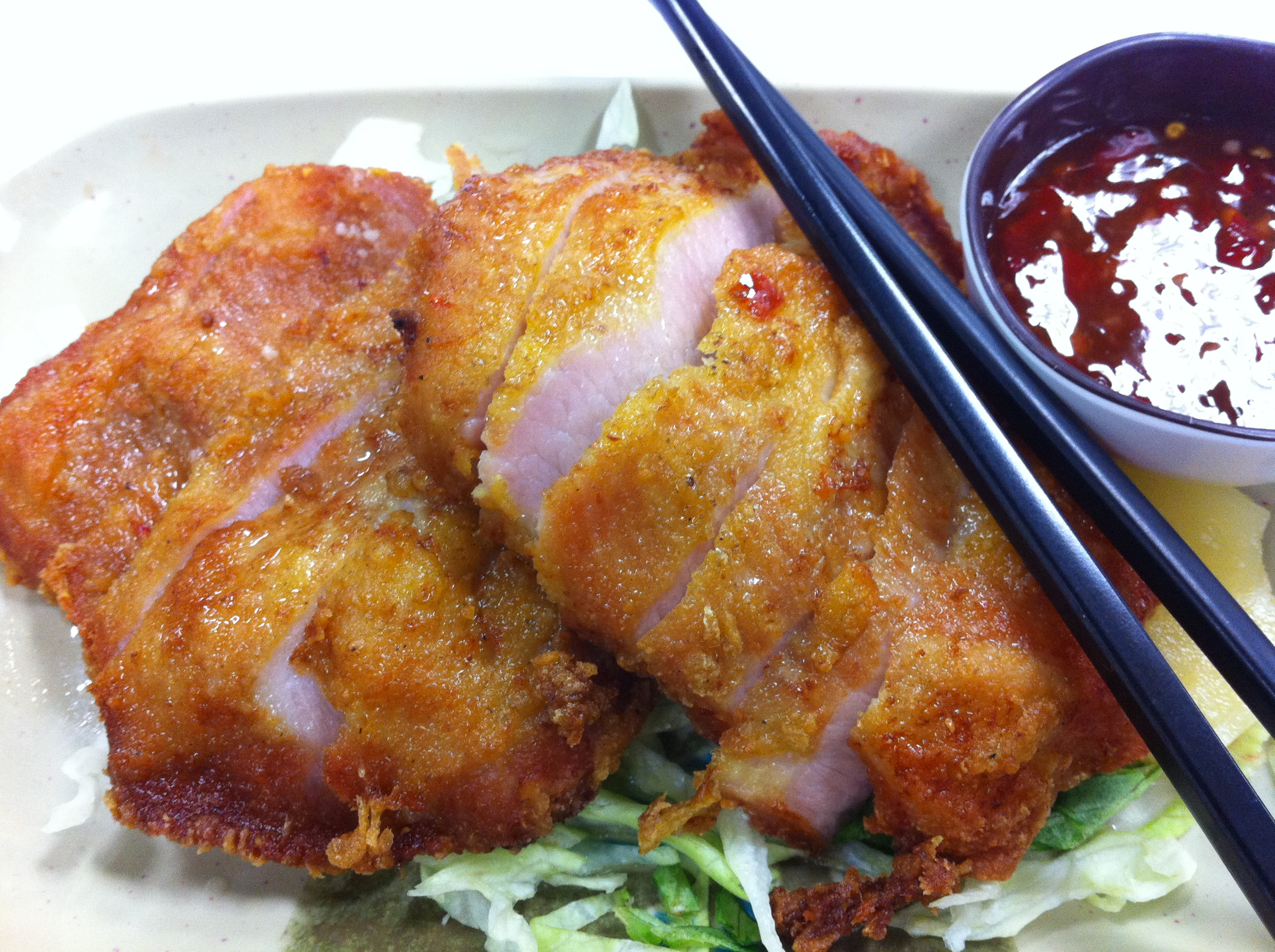 豬頸肉 Pork jowl meat - 晚飯上環街市zh:上環熟食中心棟記飯店, Tung Kee Restaurant, Sheung Wan,Hong Kong